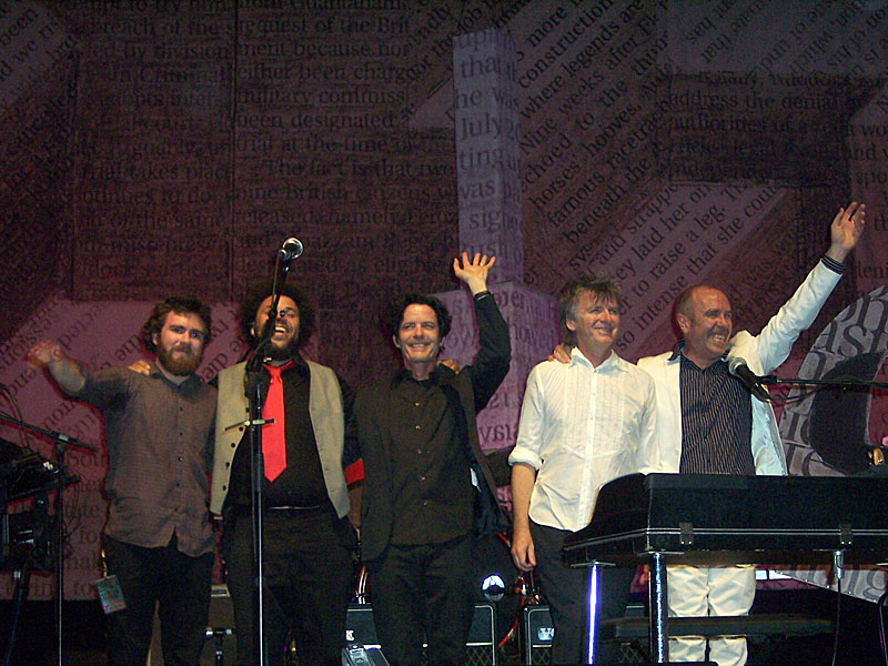 Band photo of Crowded House for the en.wikipedia project. Thank you, goodnight!